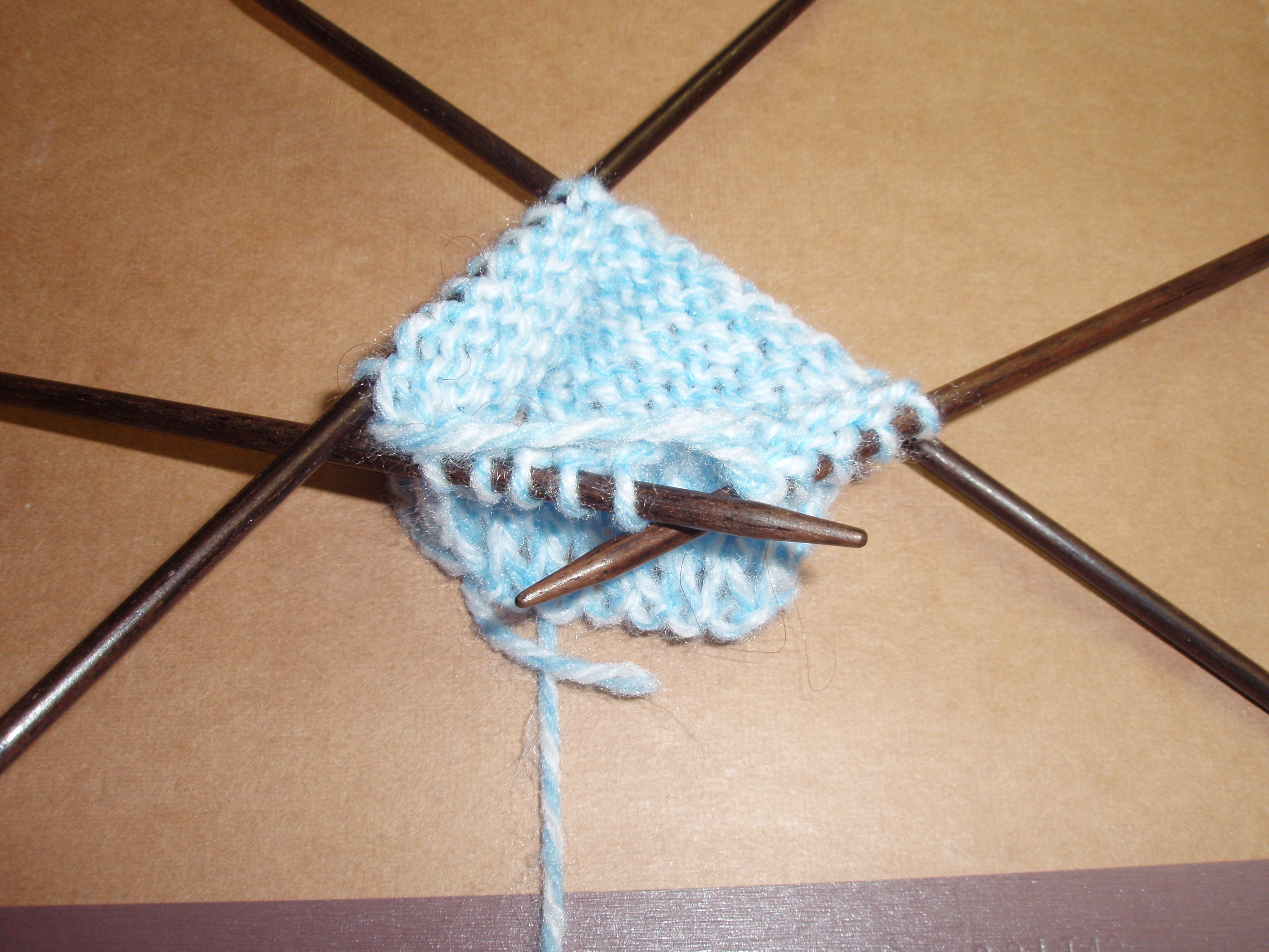 A picture of double point knitting needles in use